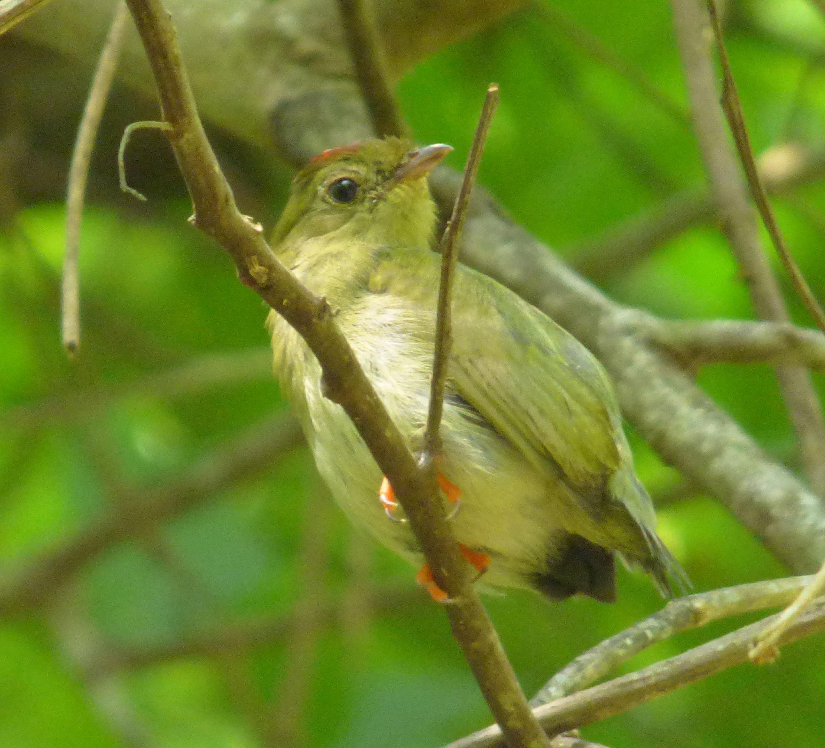 Lance-tailed Manakin (Chiroxiphia lanceolata) in Colombia